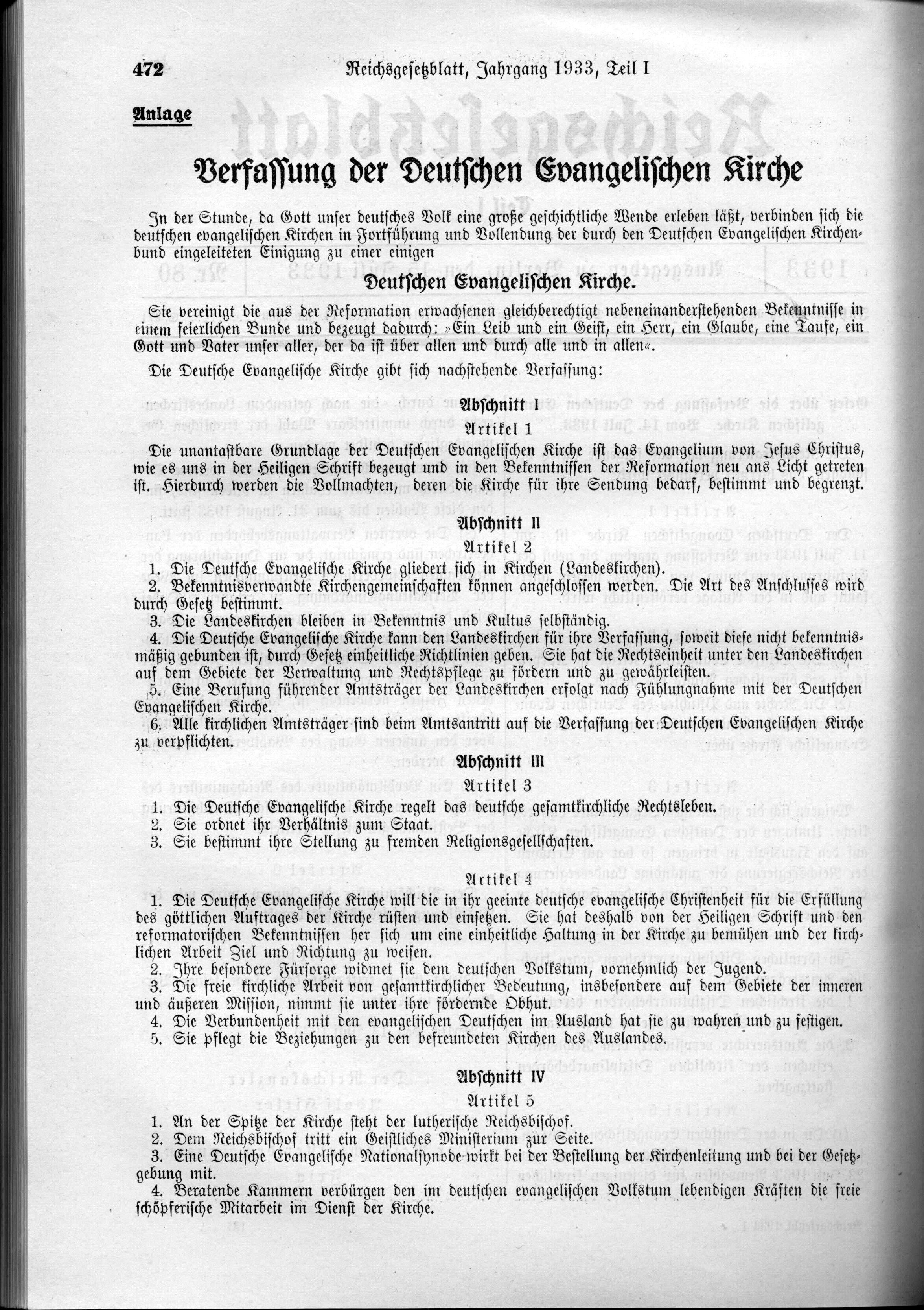 Scan from the Imperial Law Gazette of Germany, 1933, part 1